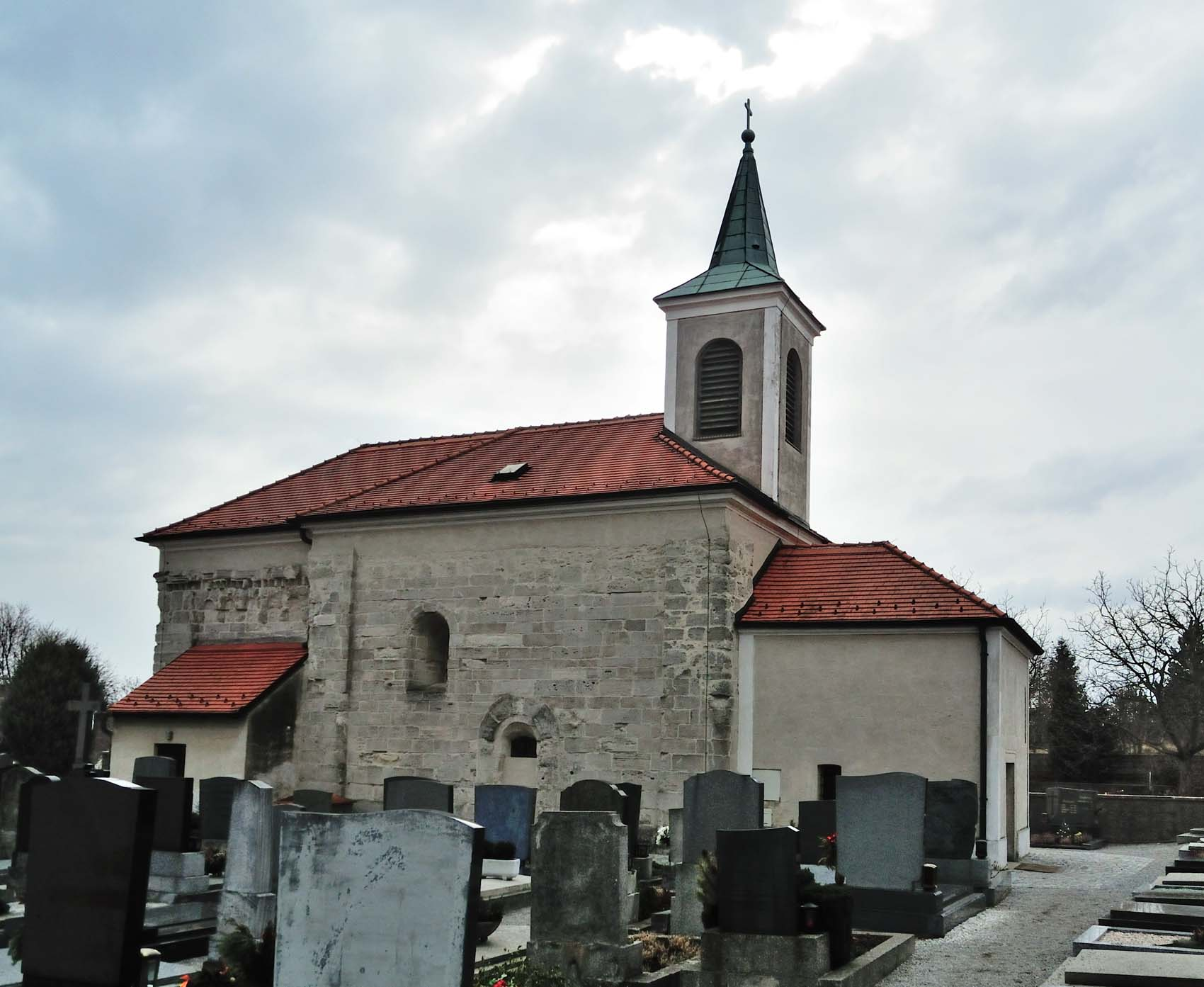 Catholic succursal church in Wildungsmauer, Municipality Scharndorf, Lower Austria, Austria